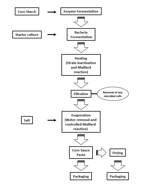 Detailed production flowchart for corn sauce production